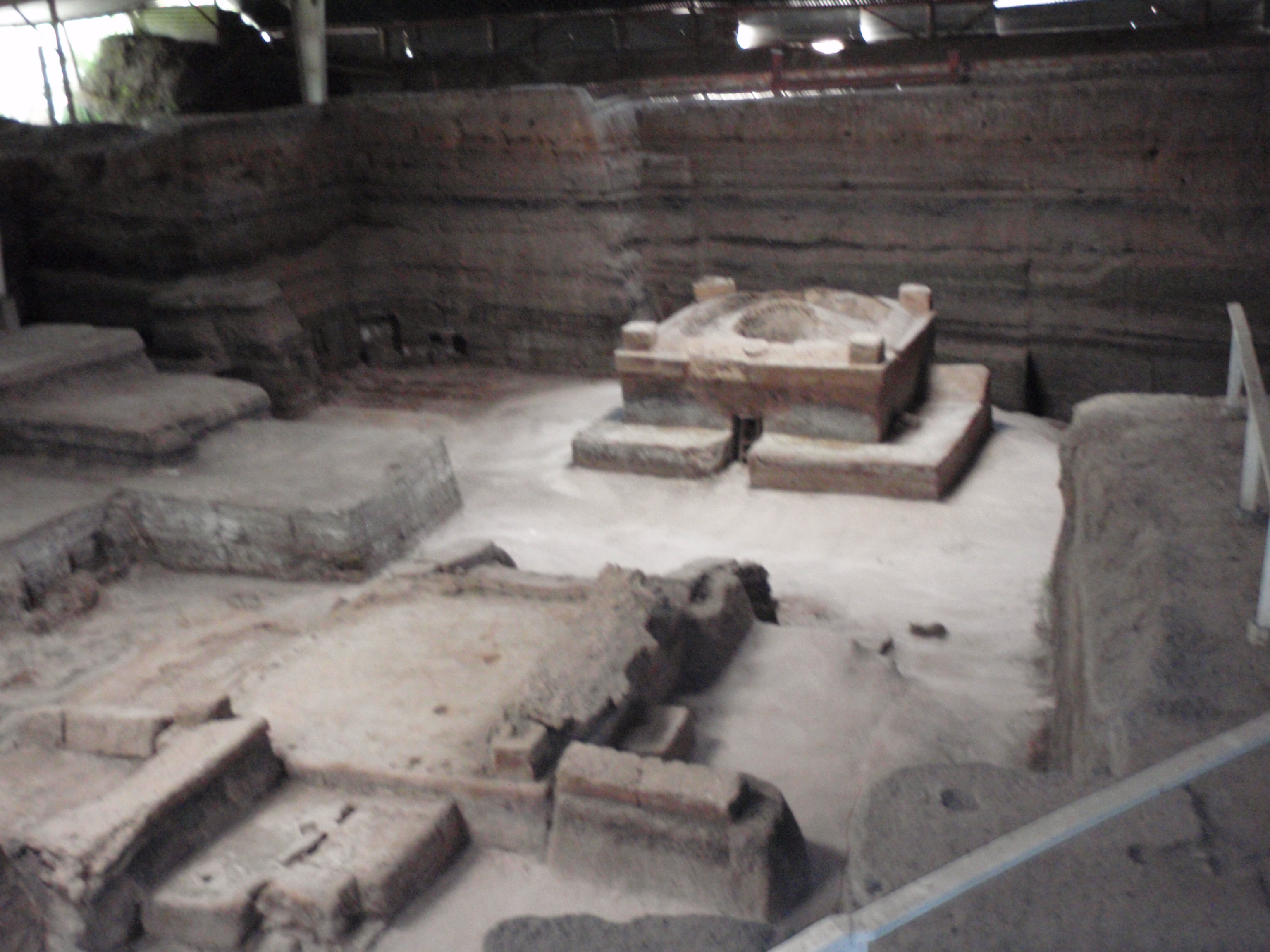 Remains of maya village of Joya de Ceren buried by volcano eruption around A.D. 600